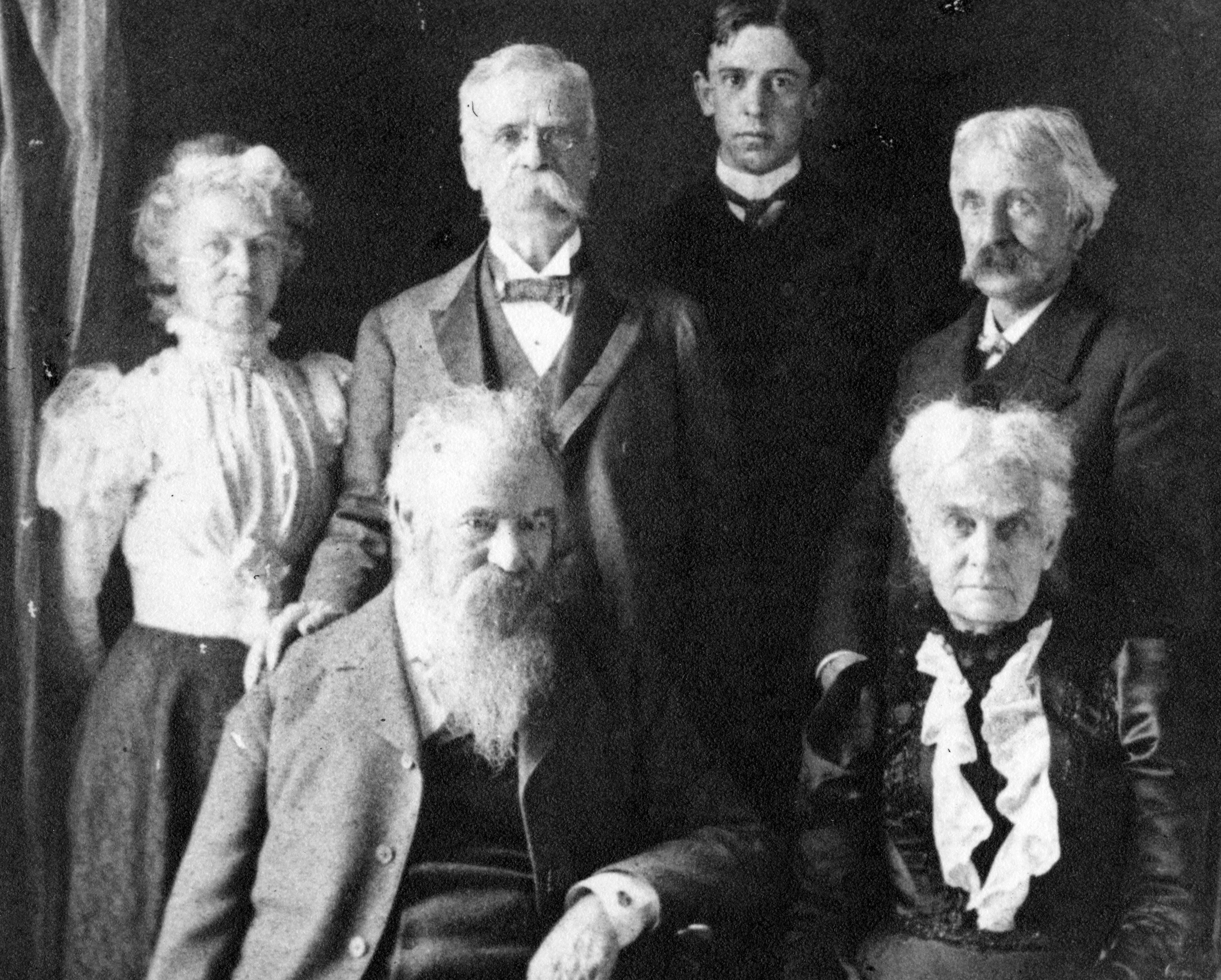 Handwritten notes on back of photograph: The last Powell family group photo taken in Topeka, Kansas on November 10, 1900 after the funeral of sister, Martha Powell Davis (wife of Congressman, John Davis). Back row, left to right: Ellen Powell Thompson, William Bramwell Powell, William (Billy) P. Powell, Almon Harris Thompson. Front row, left to right: John Wesley Powell and Mary Powell Wheeler. Topeka, Kansas. 1900.